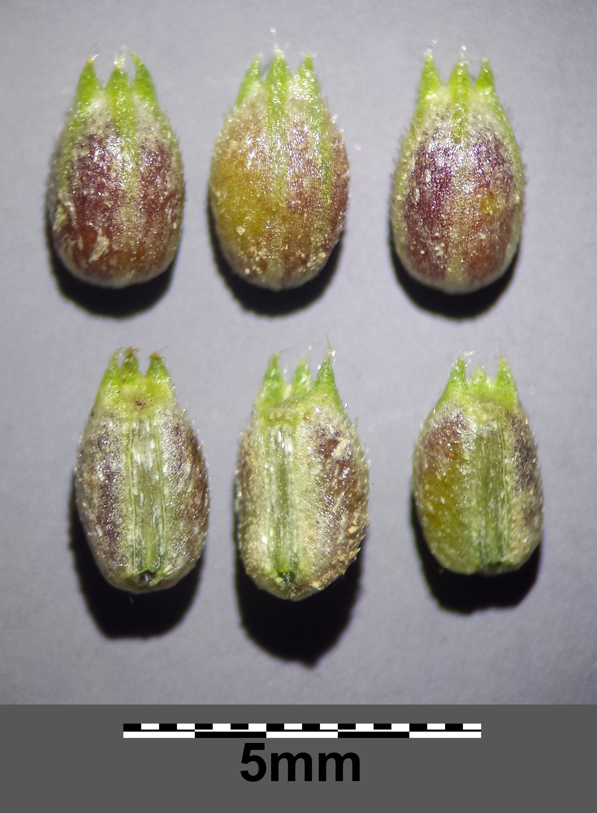 Fruits Taxonym: Sherardia arvensis ss Fischer et al. EfÖLS 2008 ISBN 978-3-85474-187-9 Location: nearby Riebeis, Rappottenstein, district Zwettl, Lower Austria - ca. 775 m a.s.l. Habitat: field